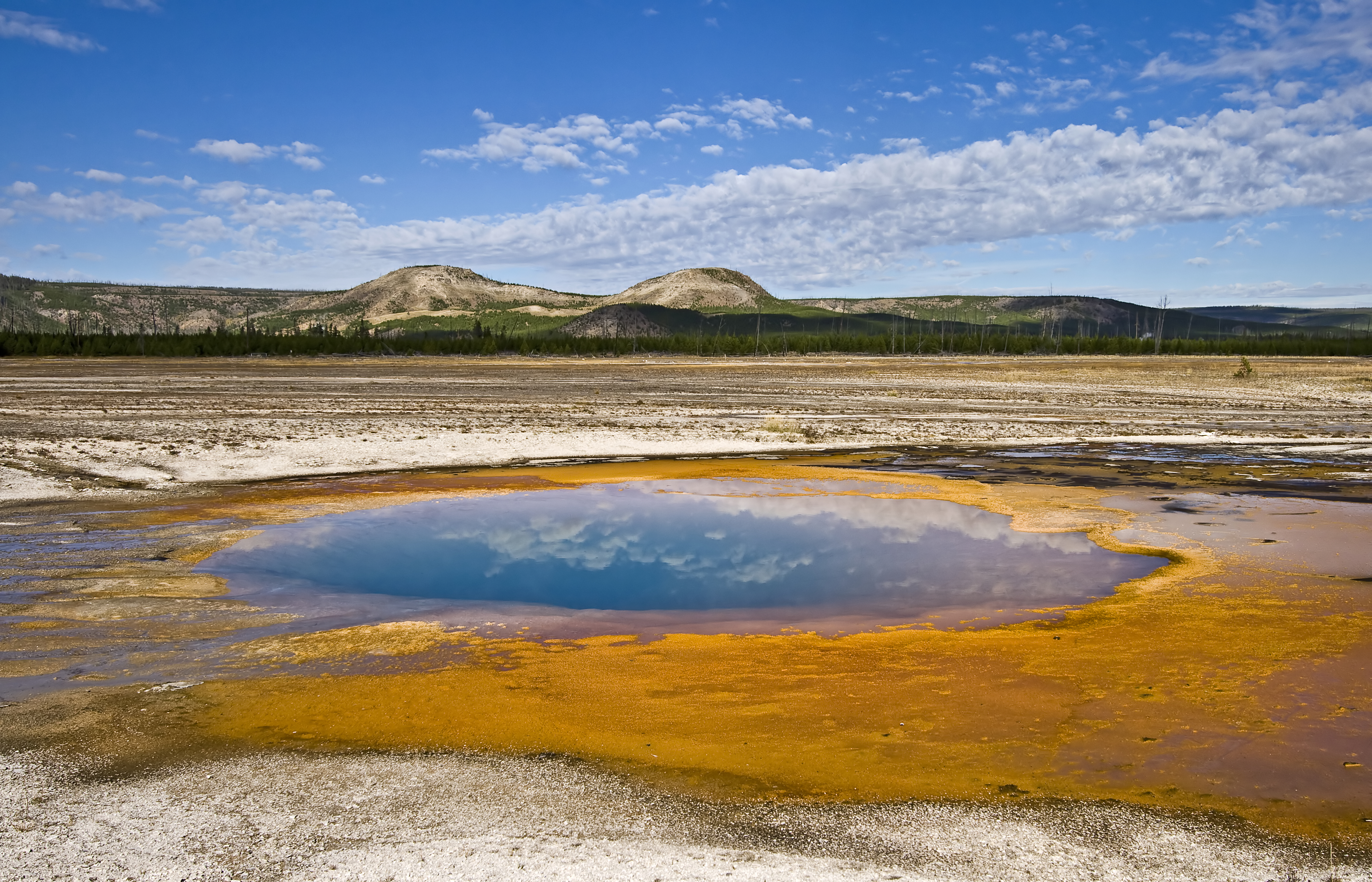 Opal Pool, with Twin Buttes beyond, in the Midway Geyser Basin, Yellowstone National Park, Wyoming, USA